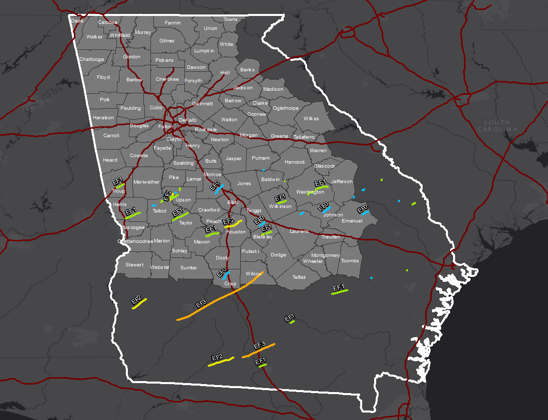 Tracks of the record-breaking 41 tornadoes that touched down across Georgia during the January 21–23, 2017, tornado outbreak